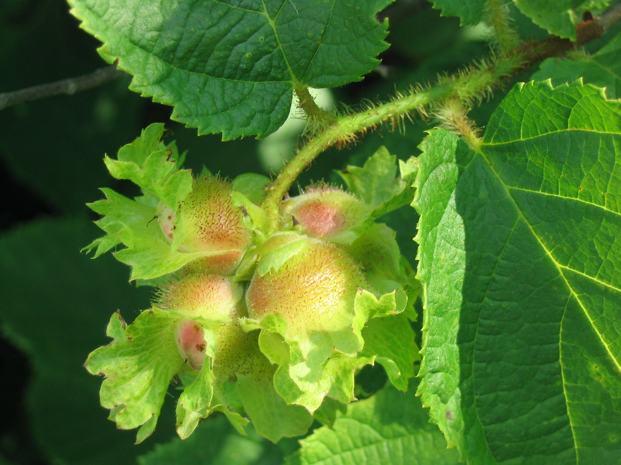 Corylus americana — American Hazelnut. In the Superior National Forest, Minnesota.